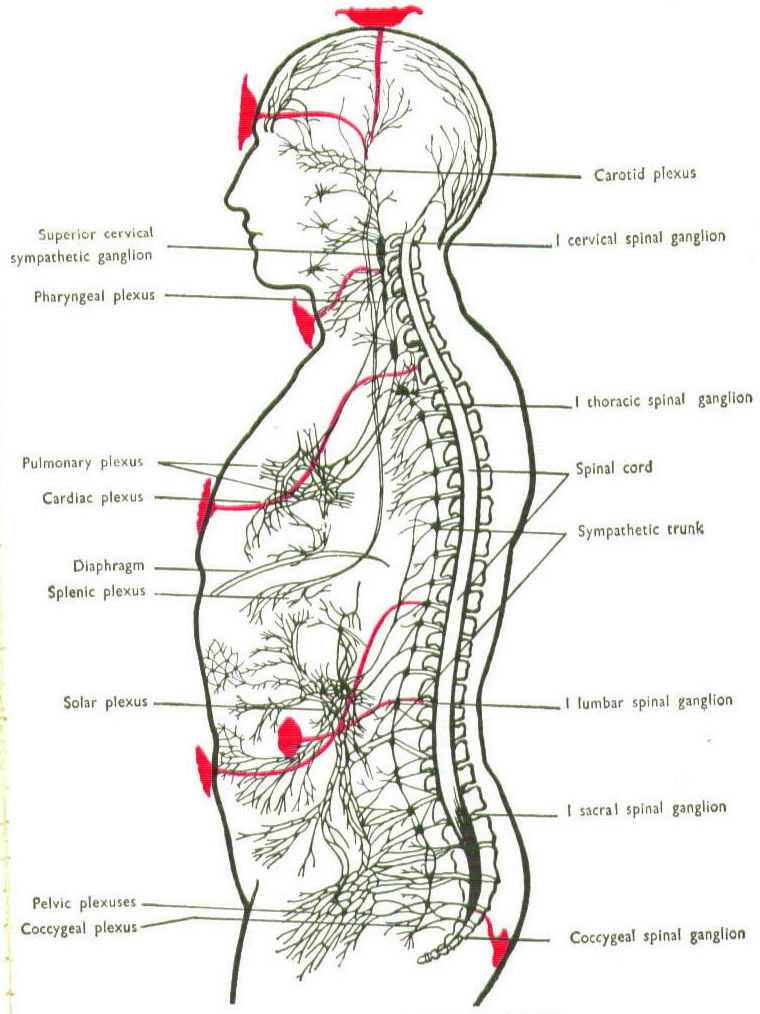 Chakra positions in relation to nervous plexi.